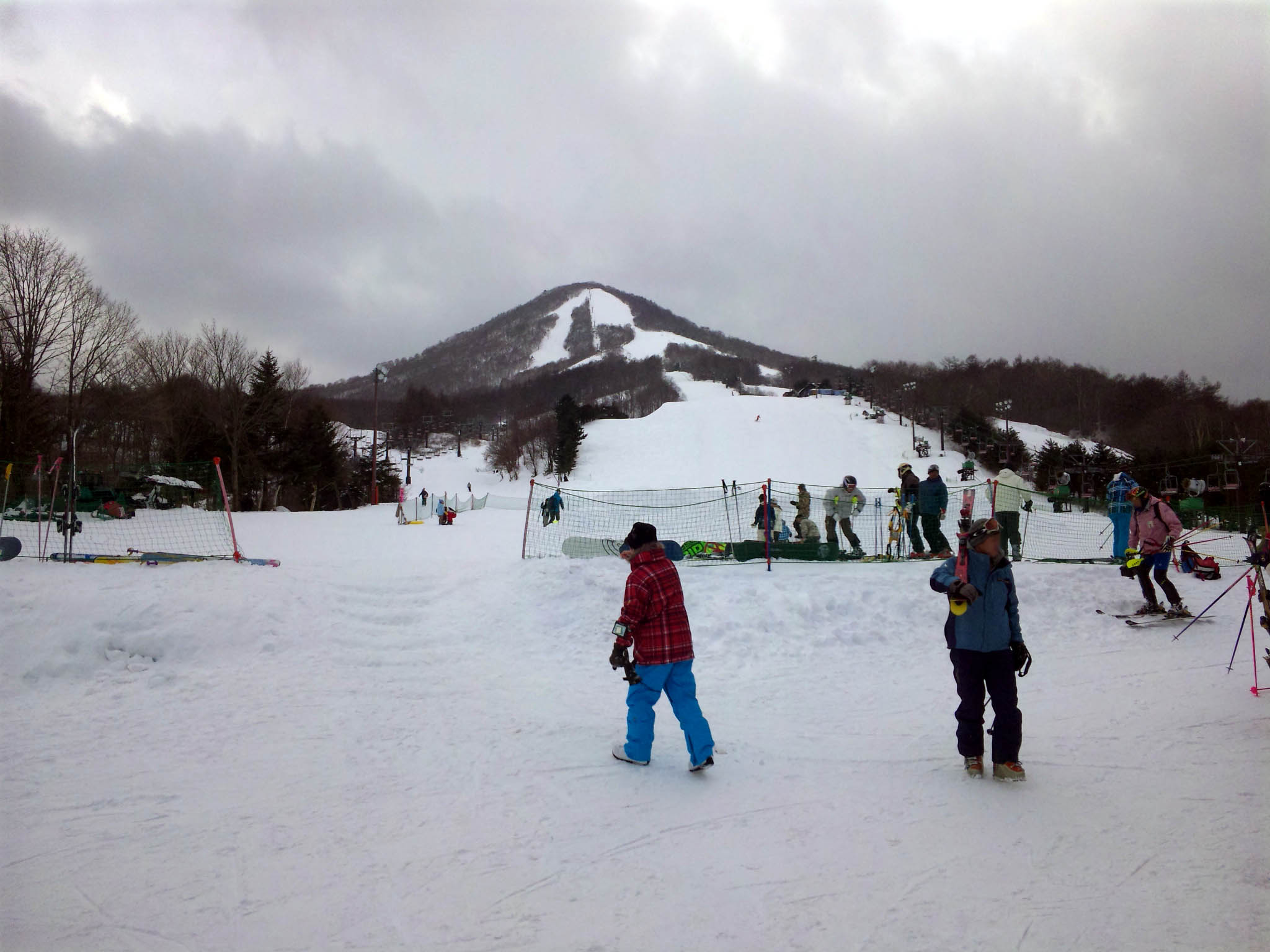 KASAWA SNOW PARK